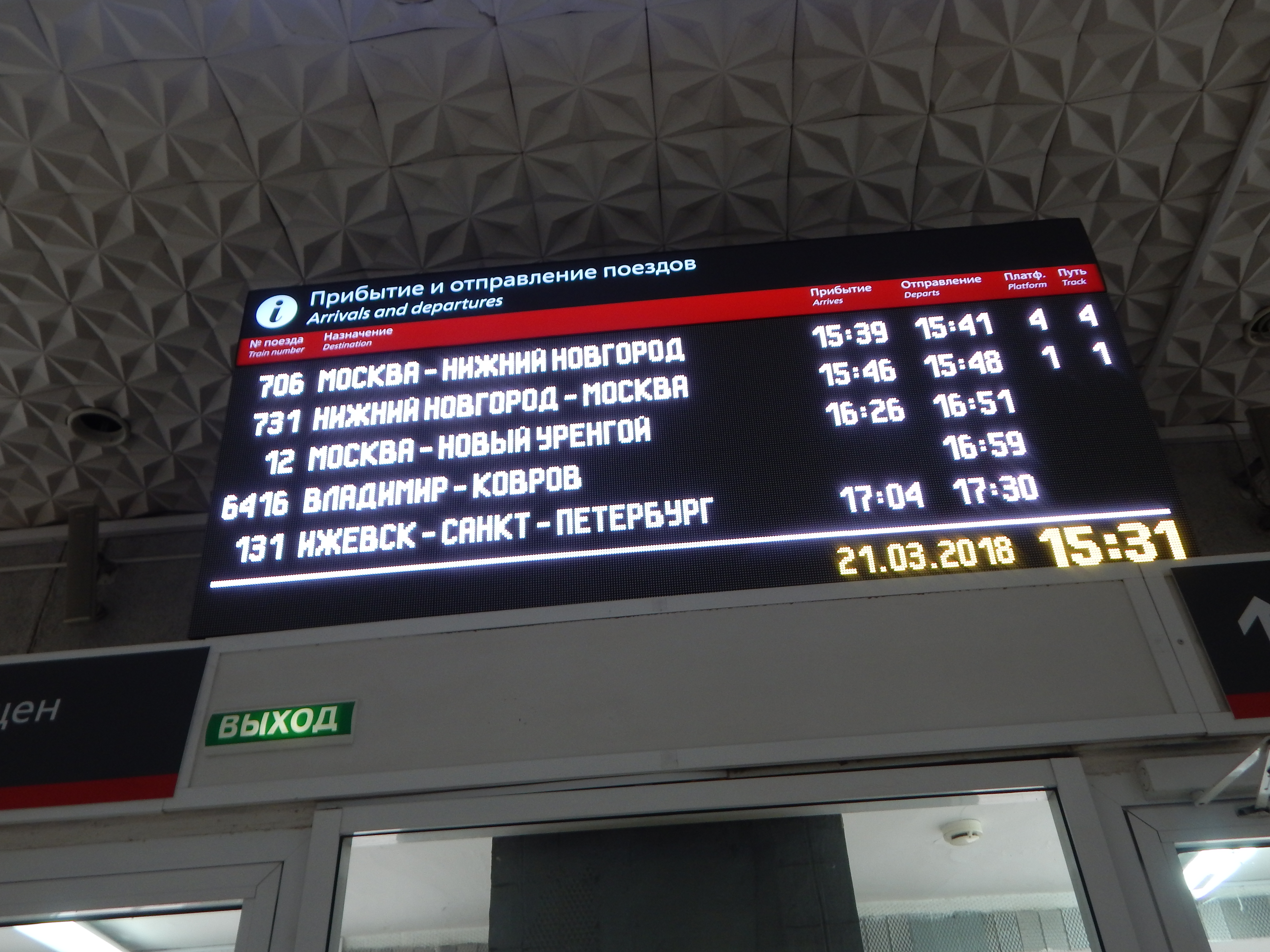 Vladimir train station display. Vladimir, Russia